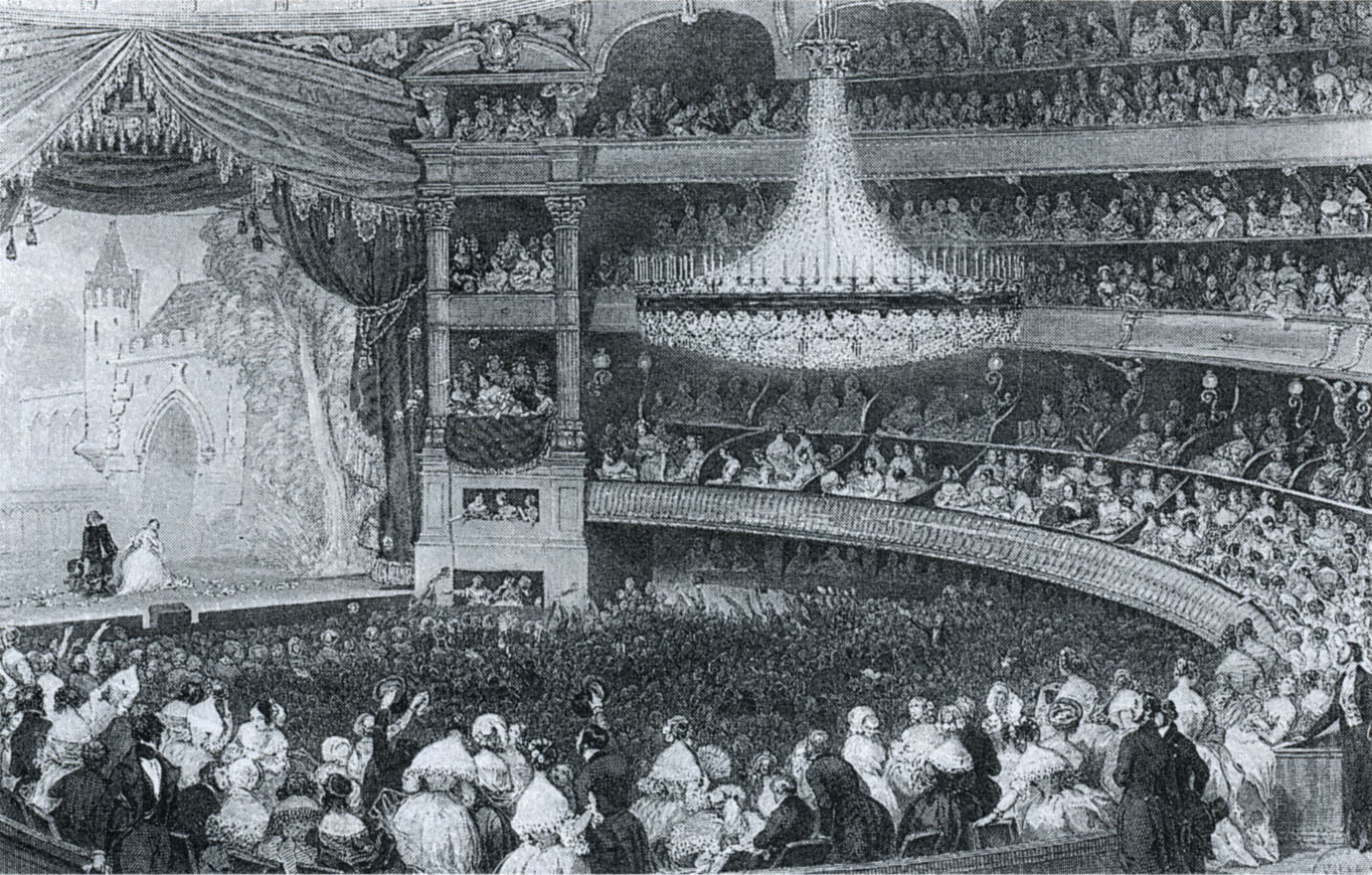 A performance by the Théâtre-Italien at the Salle Ventadour, Paris. Lithograph by C. Mottram after Eugène Lami. Published 1843 in Jules Janin Un hiver à Paris. Paris.